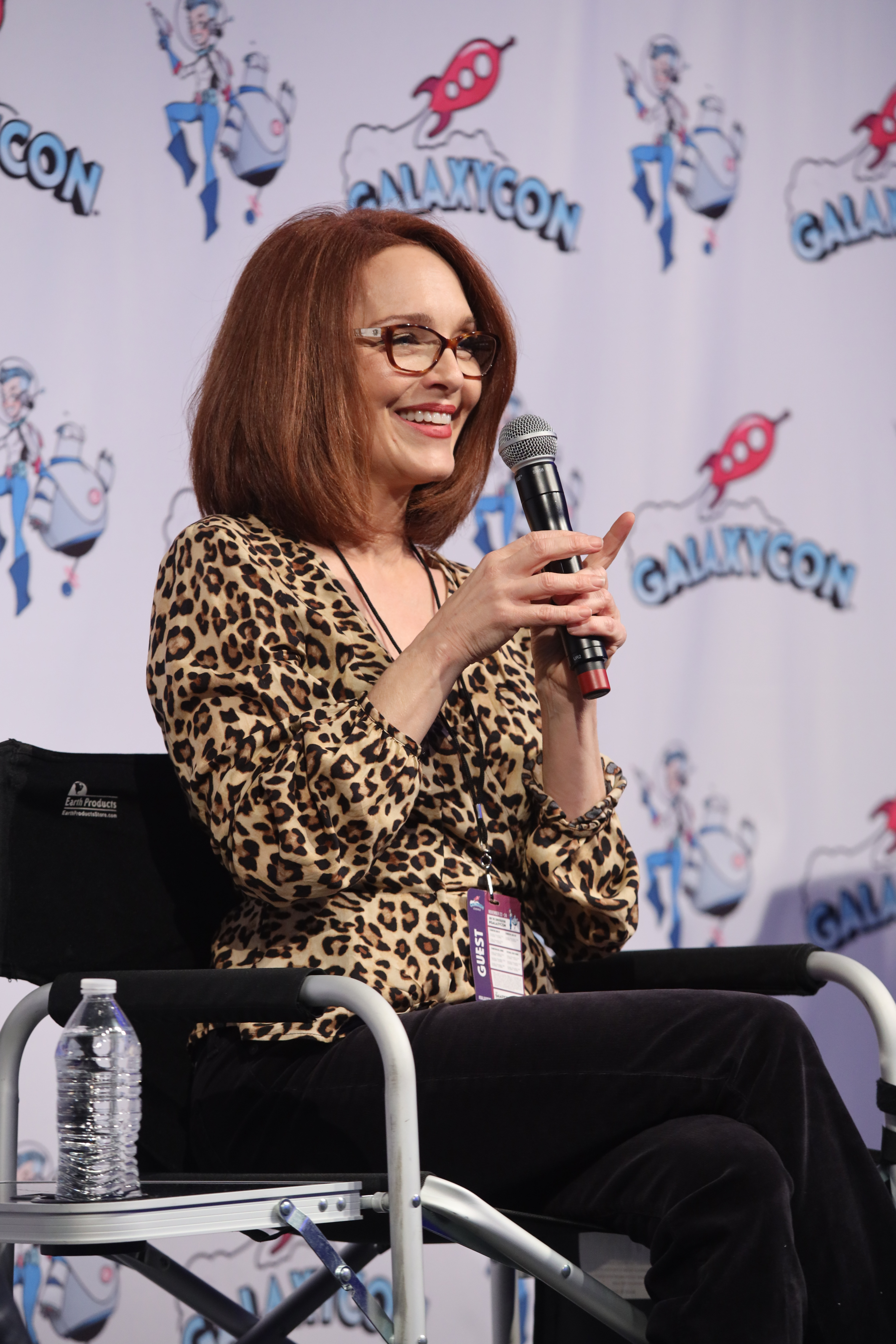 Amy Yasbeck Q&A: GalaxyCon Louisville 2019